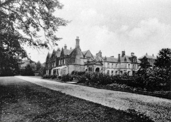 Stancliffe Hall in Darley Dale, Derbyshire. Picture cropped. Note that there is no known author but likely to have been dead for 70 years